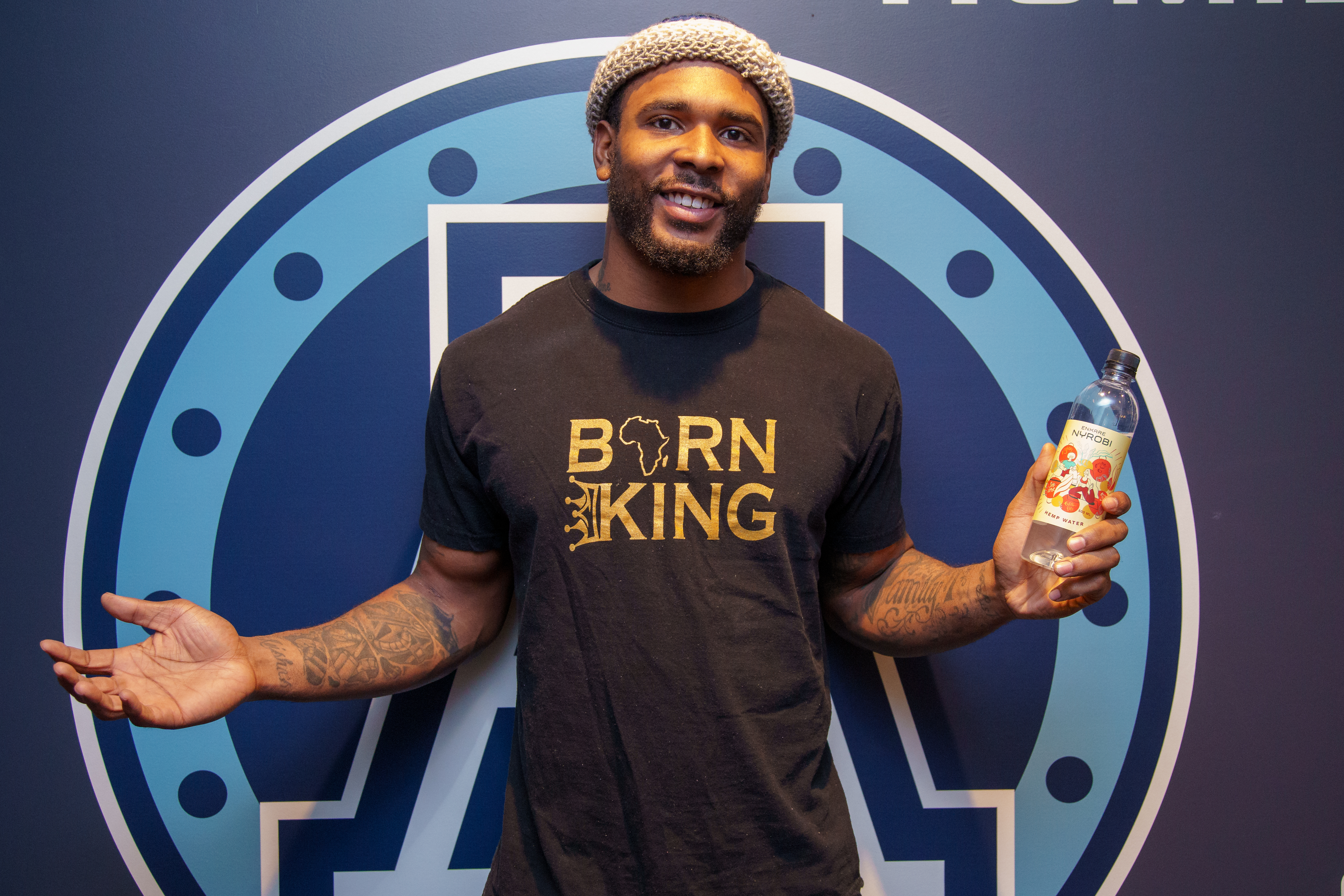 Troy Davis poses during a photo shoot.